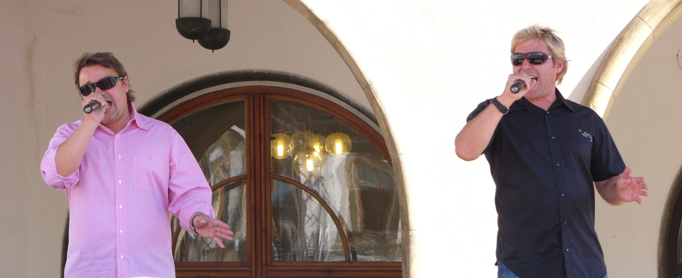 Czech music group Těžkej Pokondr.